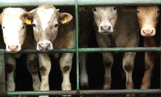 Inhabitants of Swinhoe Farm. Calves looking forward to Spring.